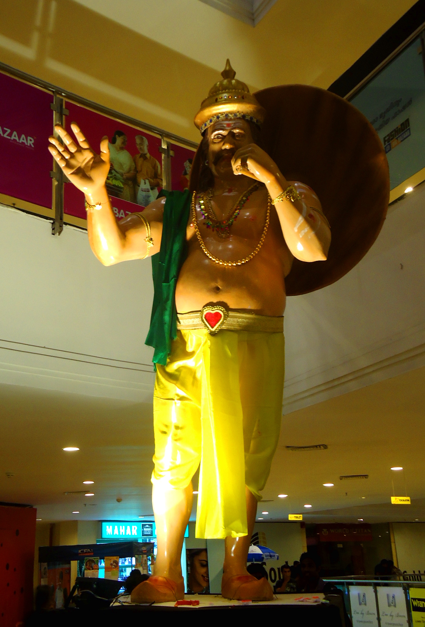 Stache of Maveli